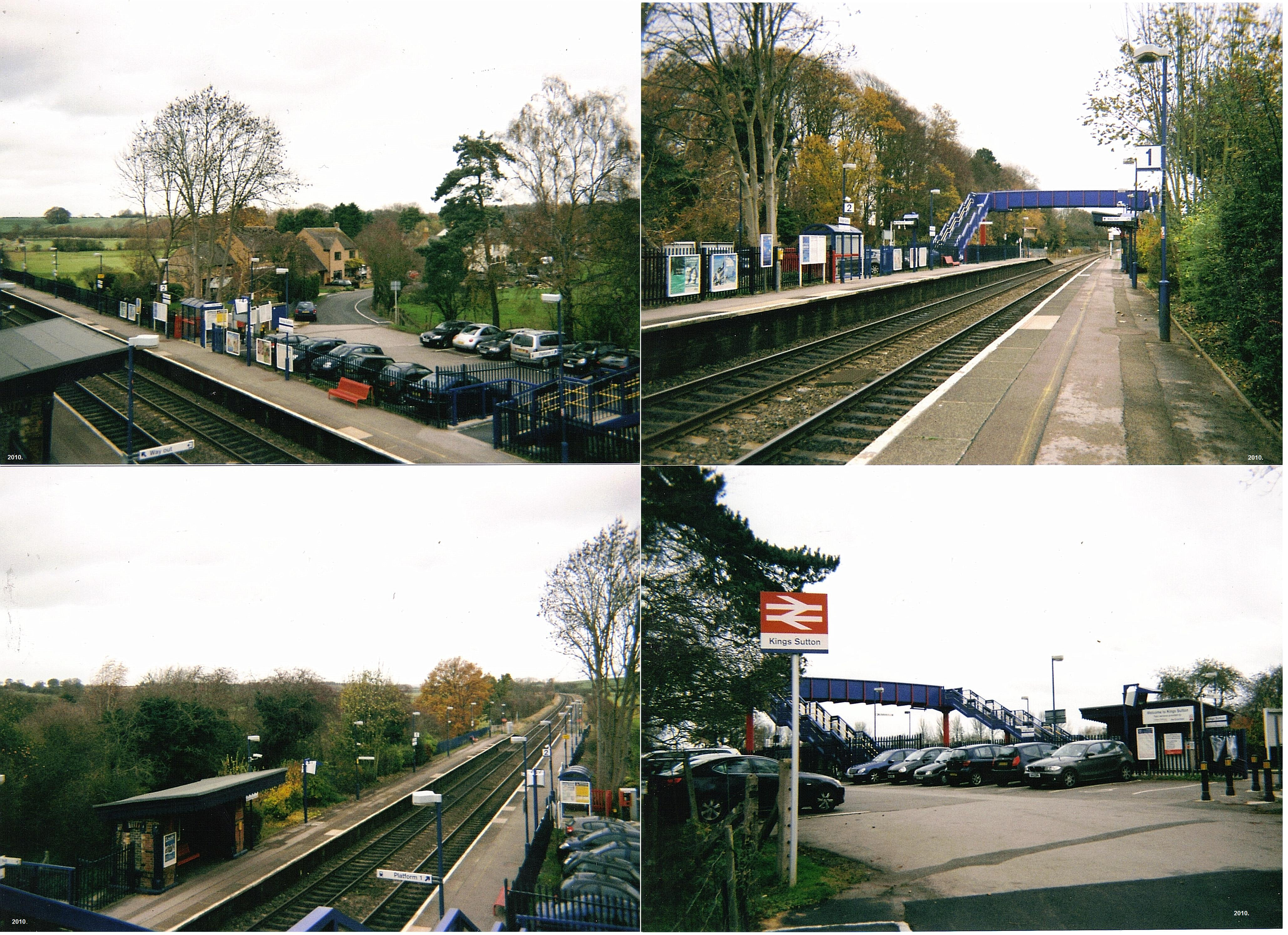 I took this picutre of King's Sutton Station my self in the year 2010. I here by release it in to the public domain.